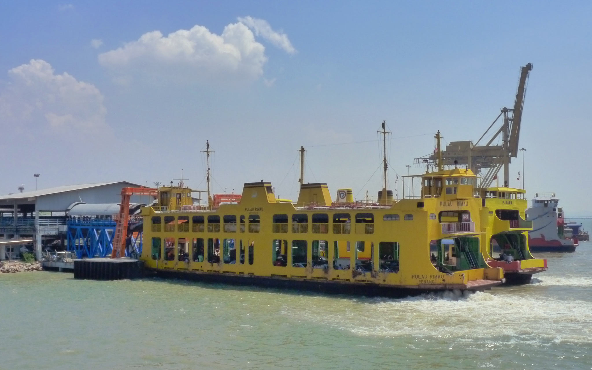 Penang ferries Pulau Rimau, Pulau Rawa and Pulau Payar docked at the Butterworth ferry terminal in Feb 2011.